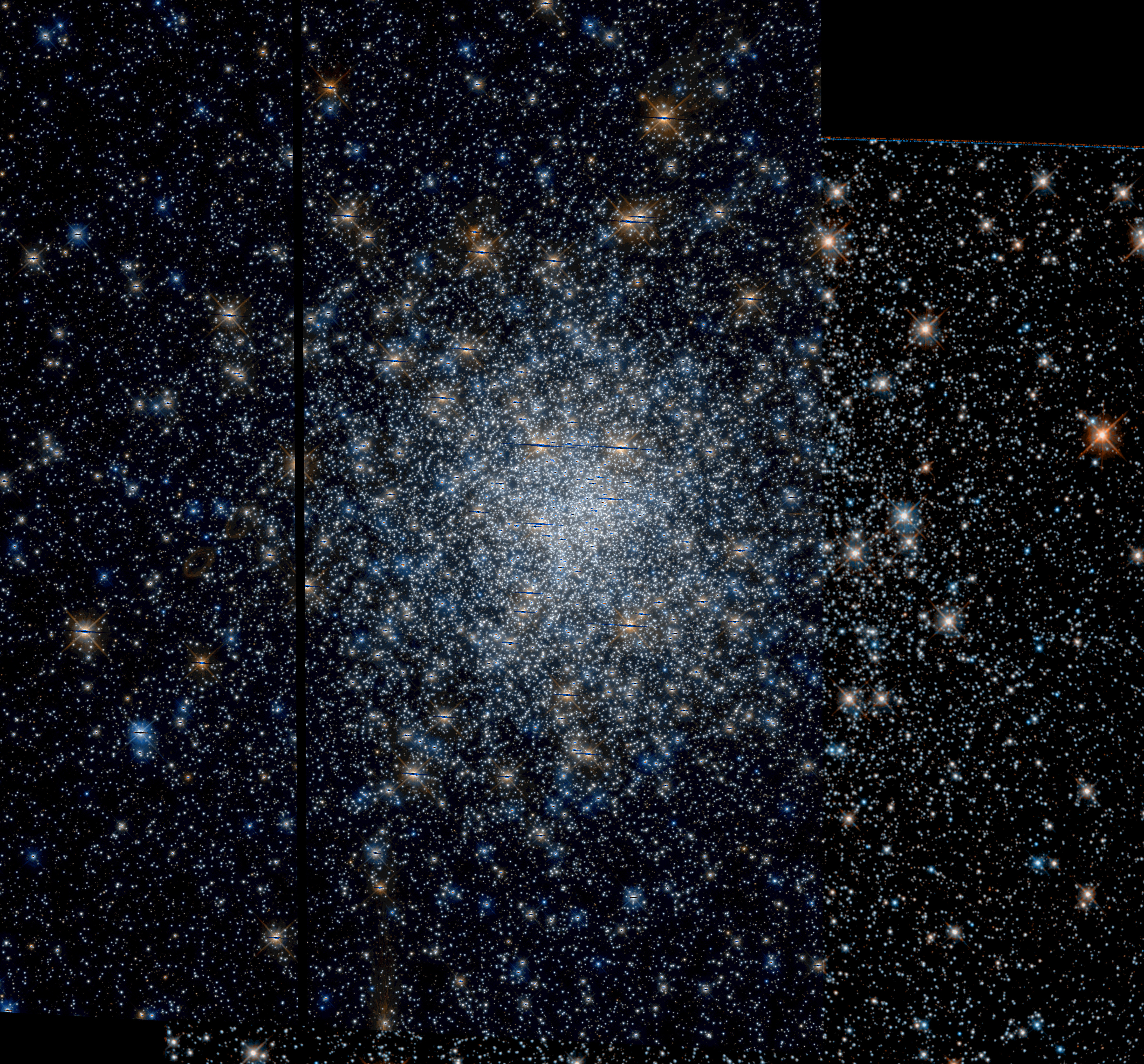 Color rendering is done by by Aladin-software (2000A&AS..143...33B.)